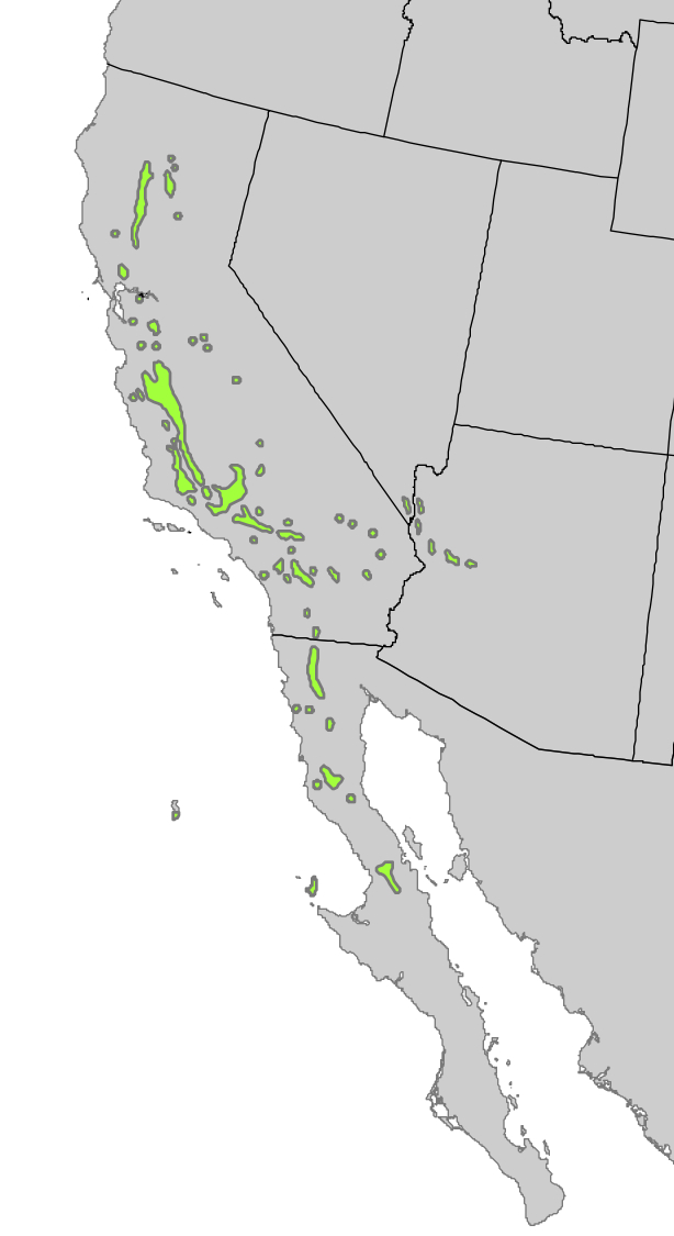 Range map of Juniperus californica